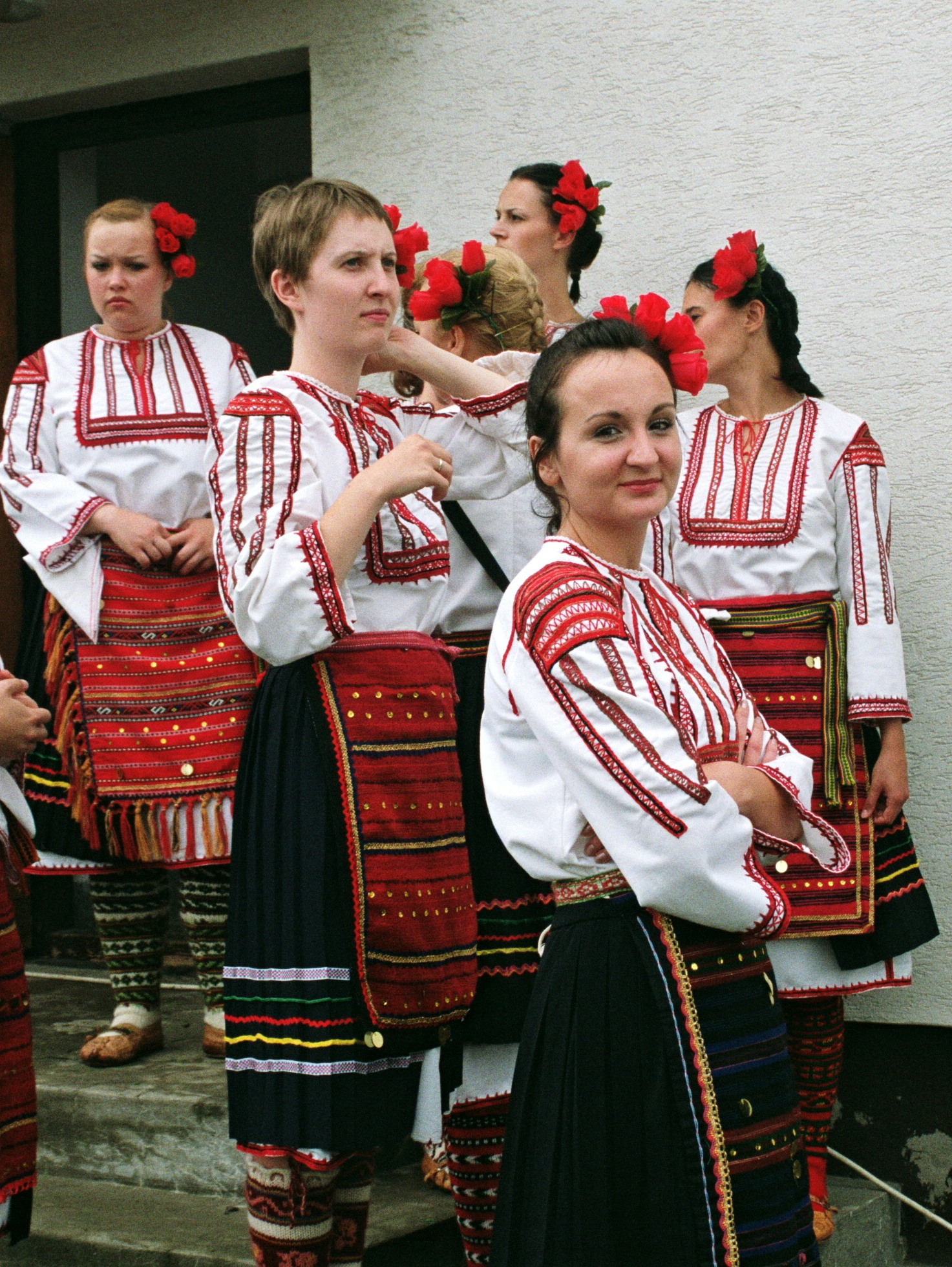 Bulgarian costume from northern region. Photo taken Aug. 2007, village Mokre, Sanok County.